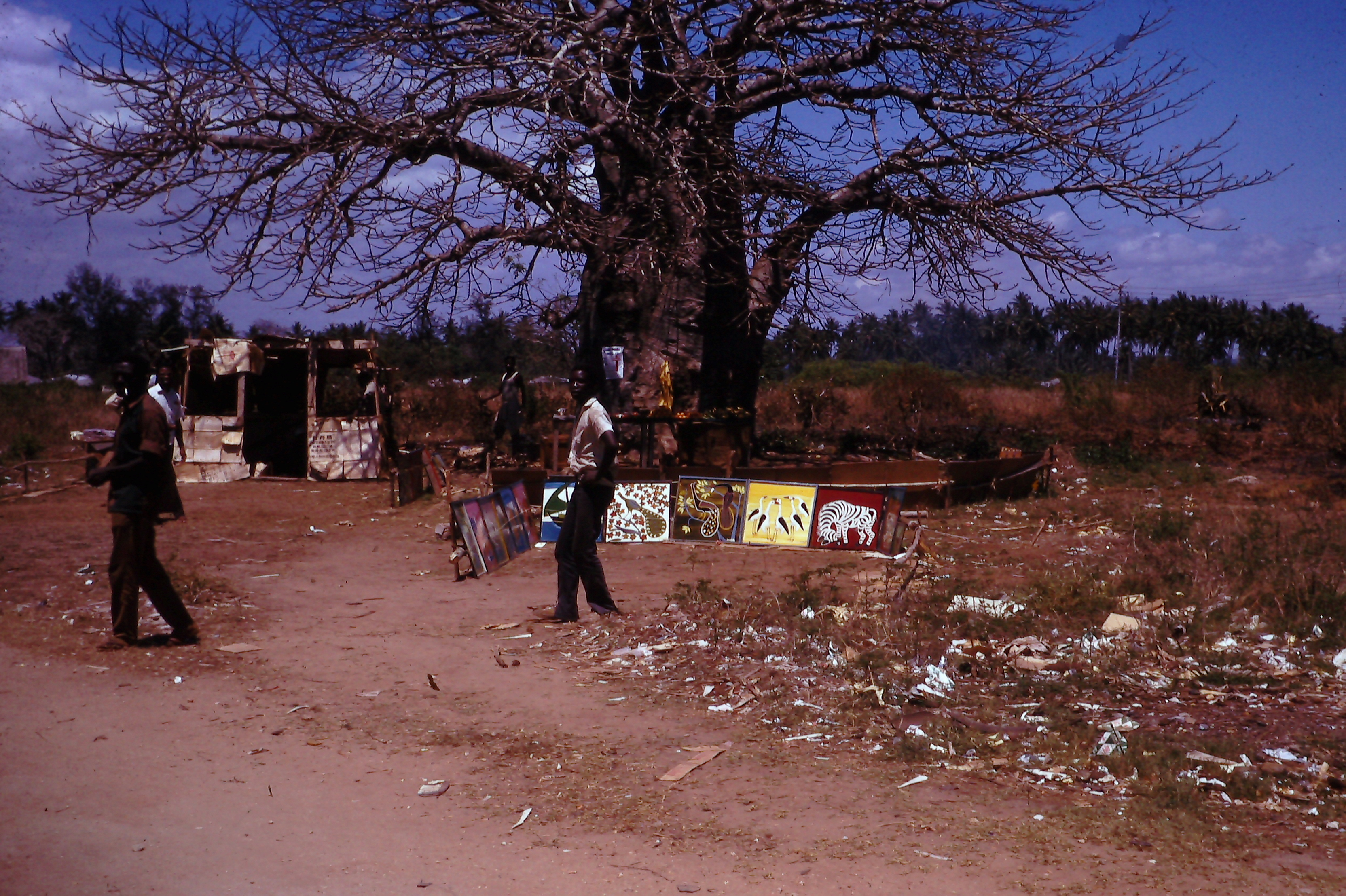 The Tingatinga school of painting sold their work in Oyster Bay, Dar es Salaam.